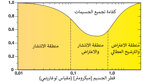 Classic Collection Efficiency Curve with Filter Collection Mechanisms.